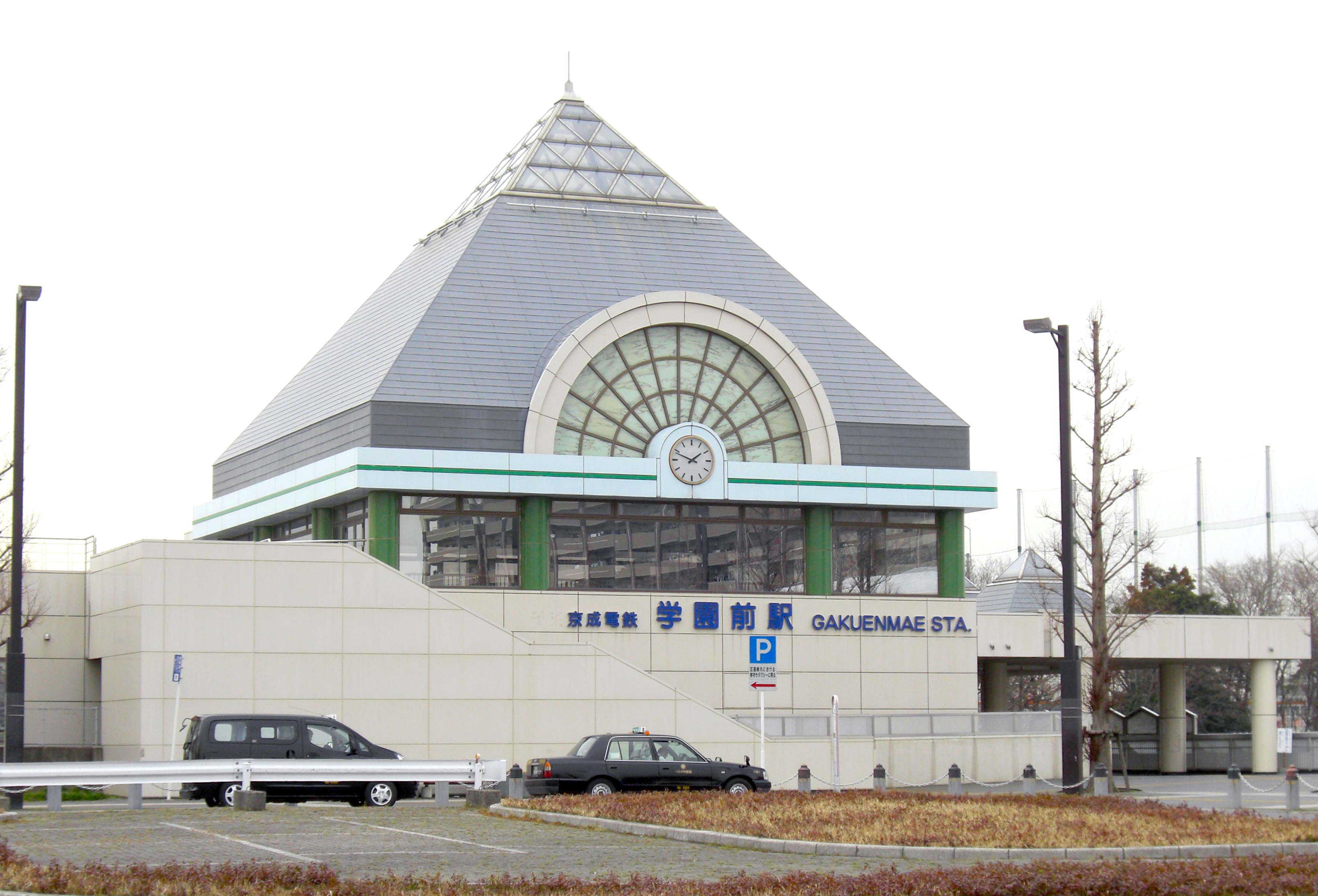 Keisei Chihara Line Gakuemmae Sta.